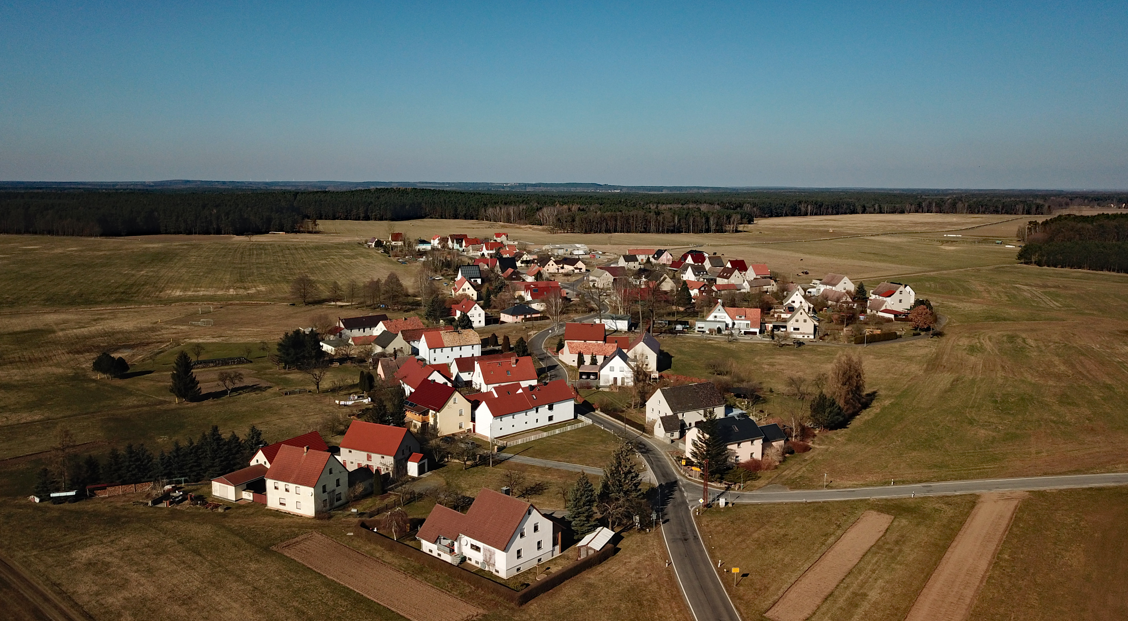 Schmerlitz (Ralbitz-Rosenthal, Saxony, Germany) Hornjoserbsce: Powětrowy wobraz Smjerdźaceje.